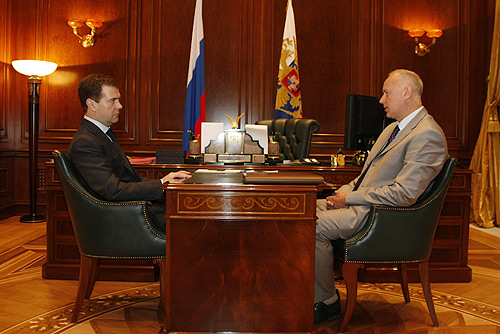 GORKI, MOSCOW REGION. With First Deputy Prosecutor General and Chairman of the Prosecutor’s Office Investigations Committee Alexander Bastyrkin.